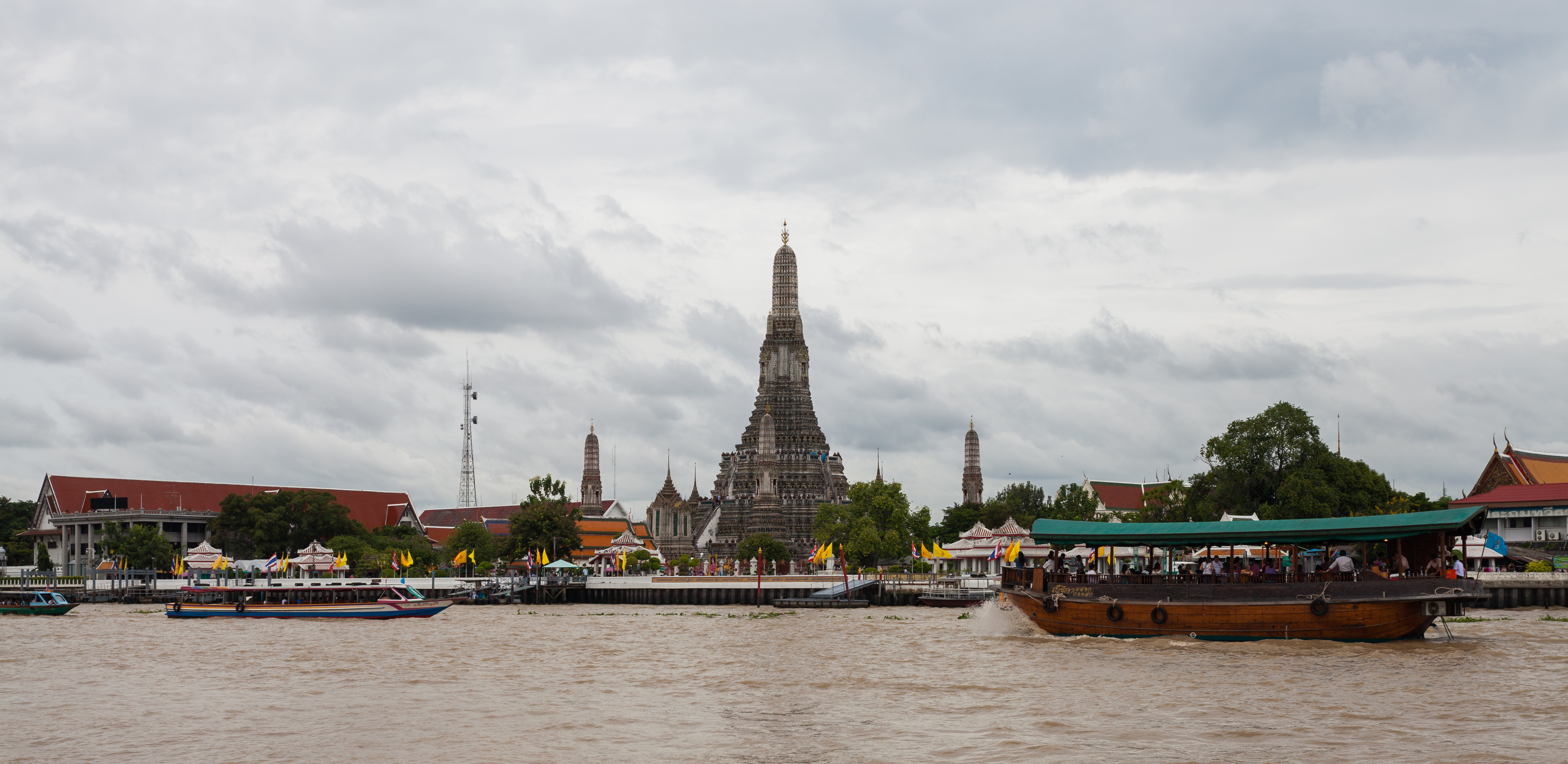 Wat Arun Temple, Bangkok, Thailand